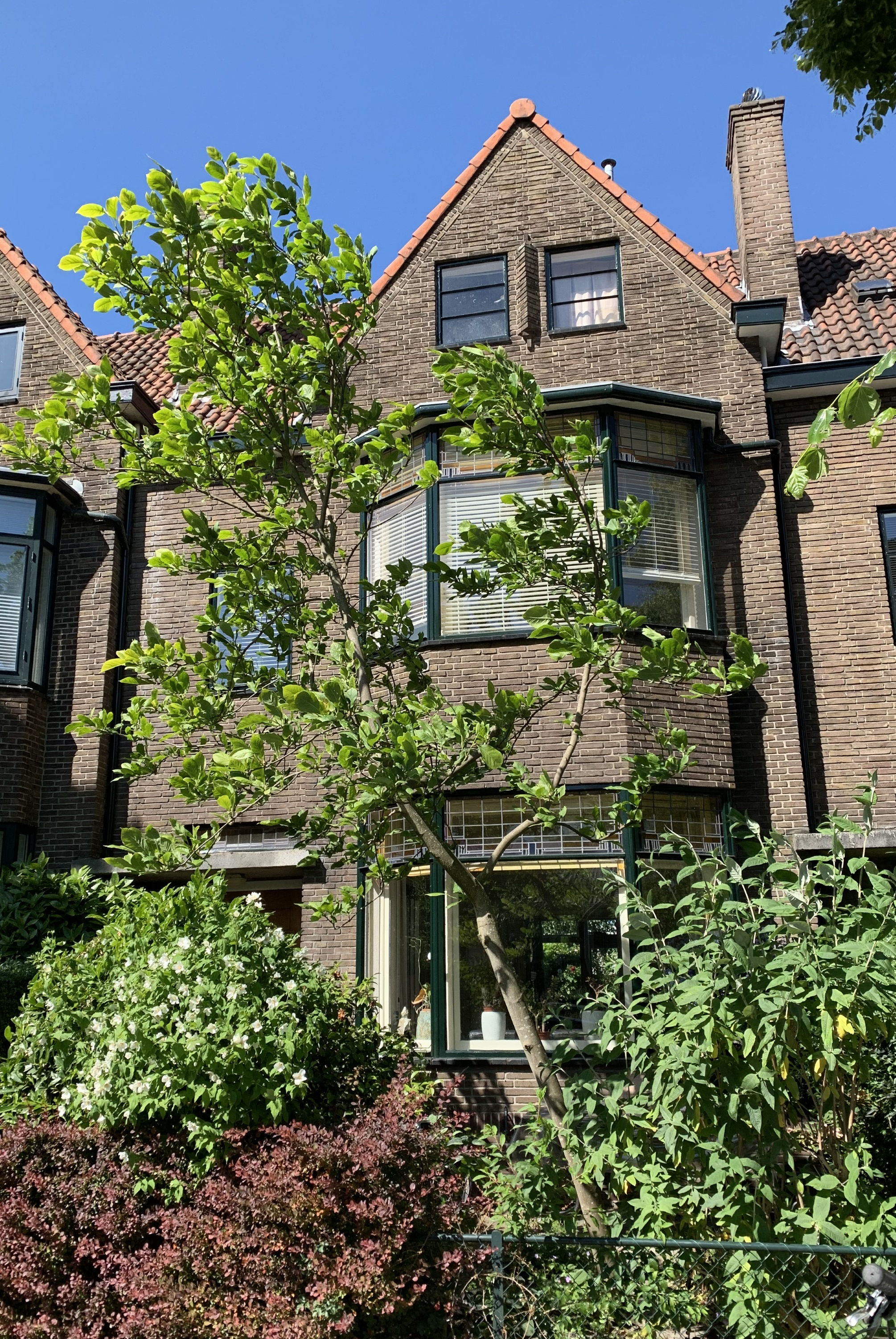 Lammenschansweg 11, Leiden, The Netherlands.